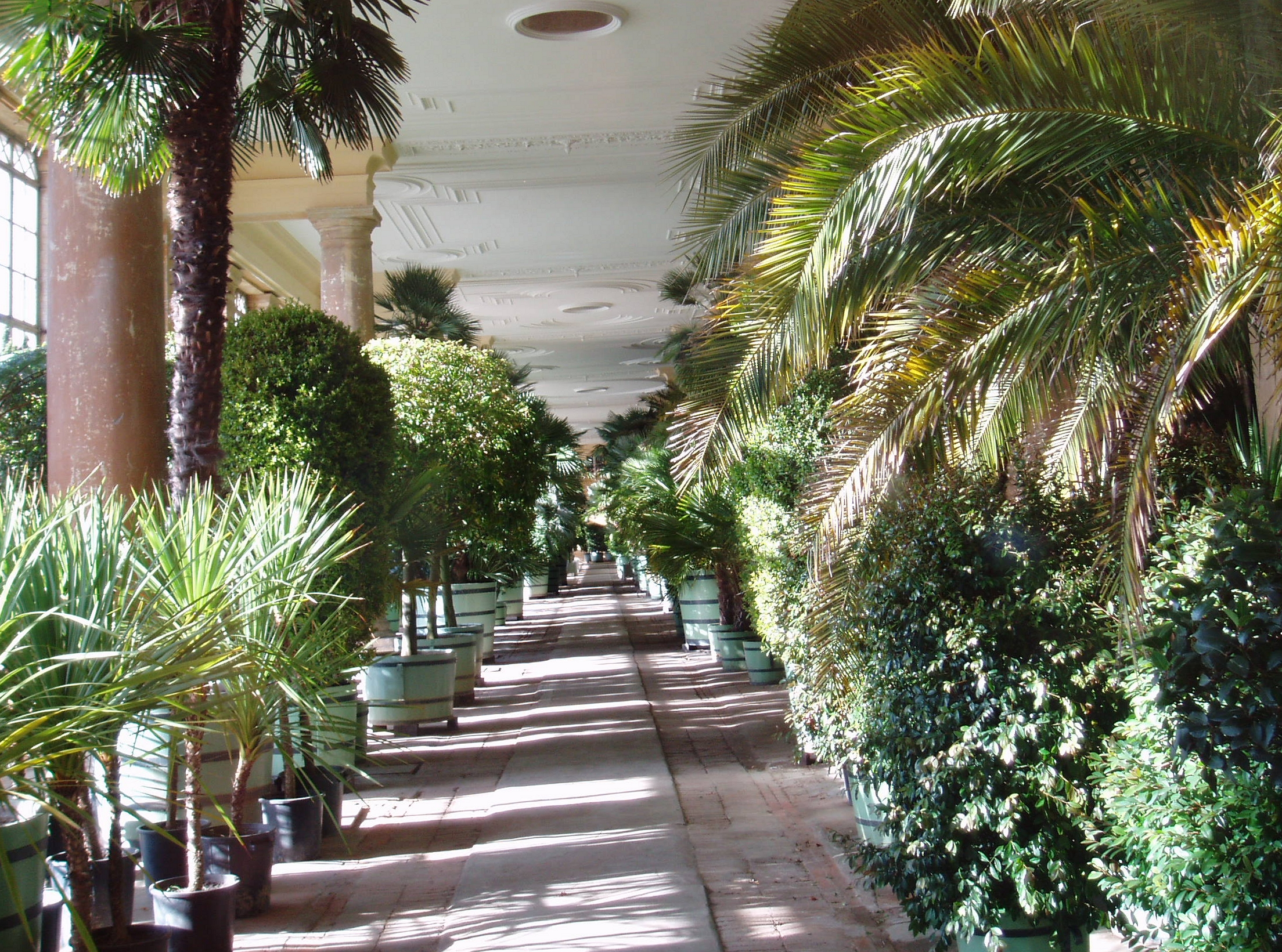 Plant hall, Orangery palace, Potsdam, Germany